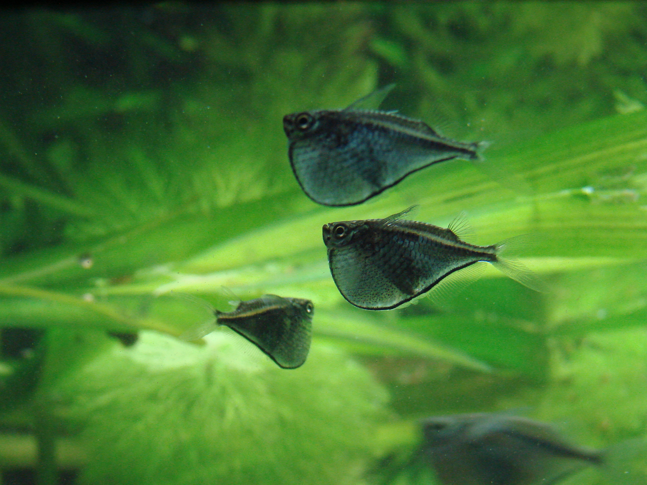 Picture taken in the zoo of Wrocław (Poland): Thoracocharax securis (De Filippi, 1853)